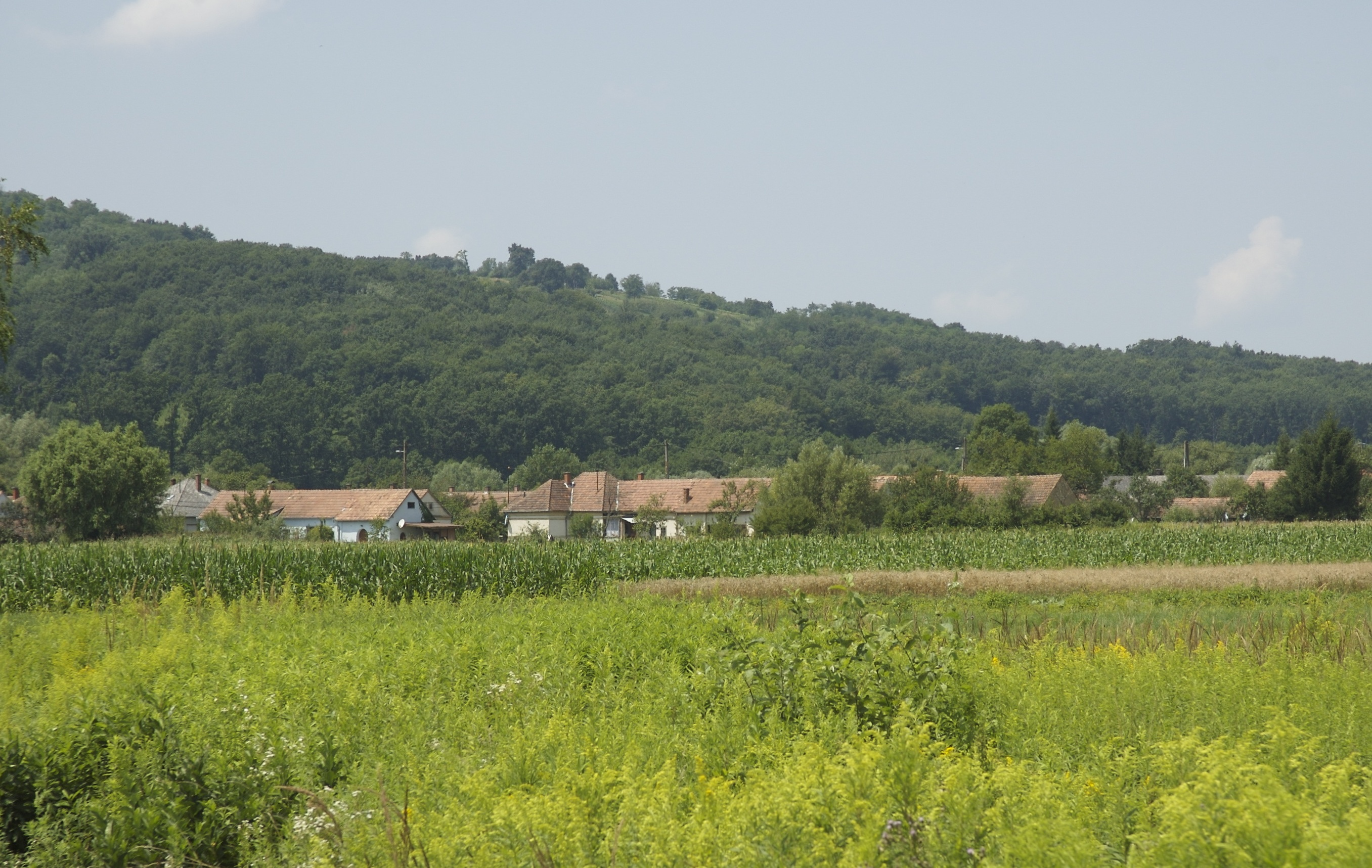 A view of Kányavár village (Zala county, Hungary)